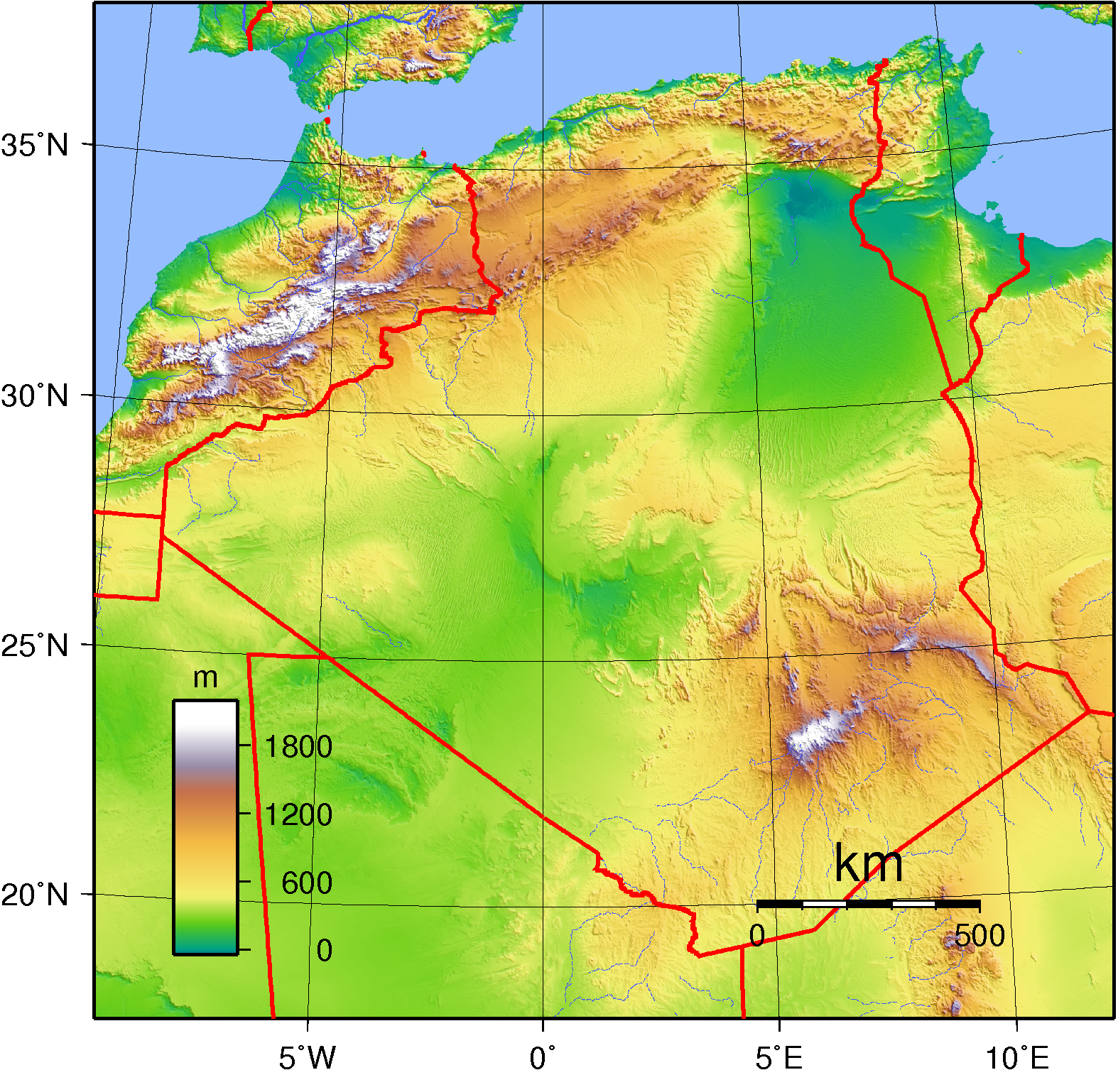 Topographic map of Algeria. Created with GMT from public domain GLOBE data.